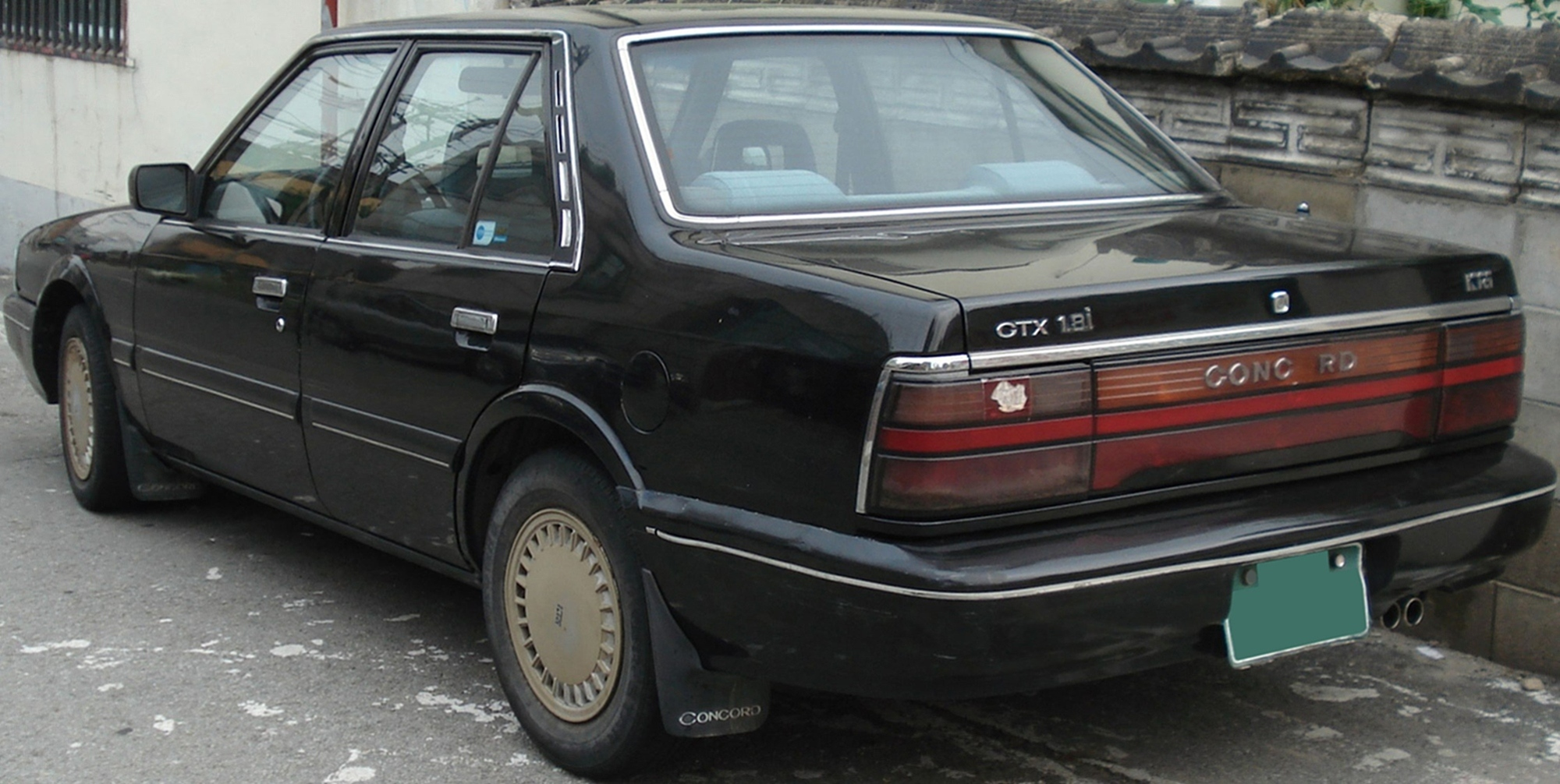 Kia New Concord